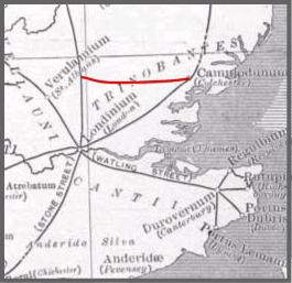 Derived from :Image:Romanbritain.jpg. Fosse Way Category:Roman Britain Category:Roman roads in Britannia